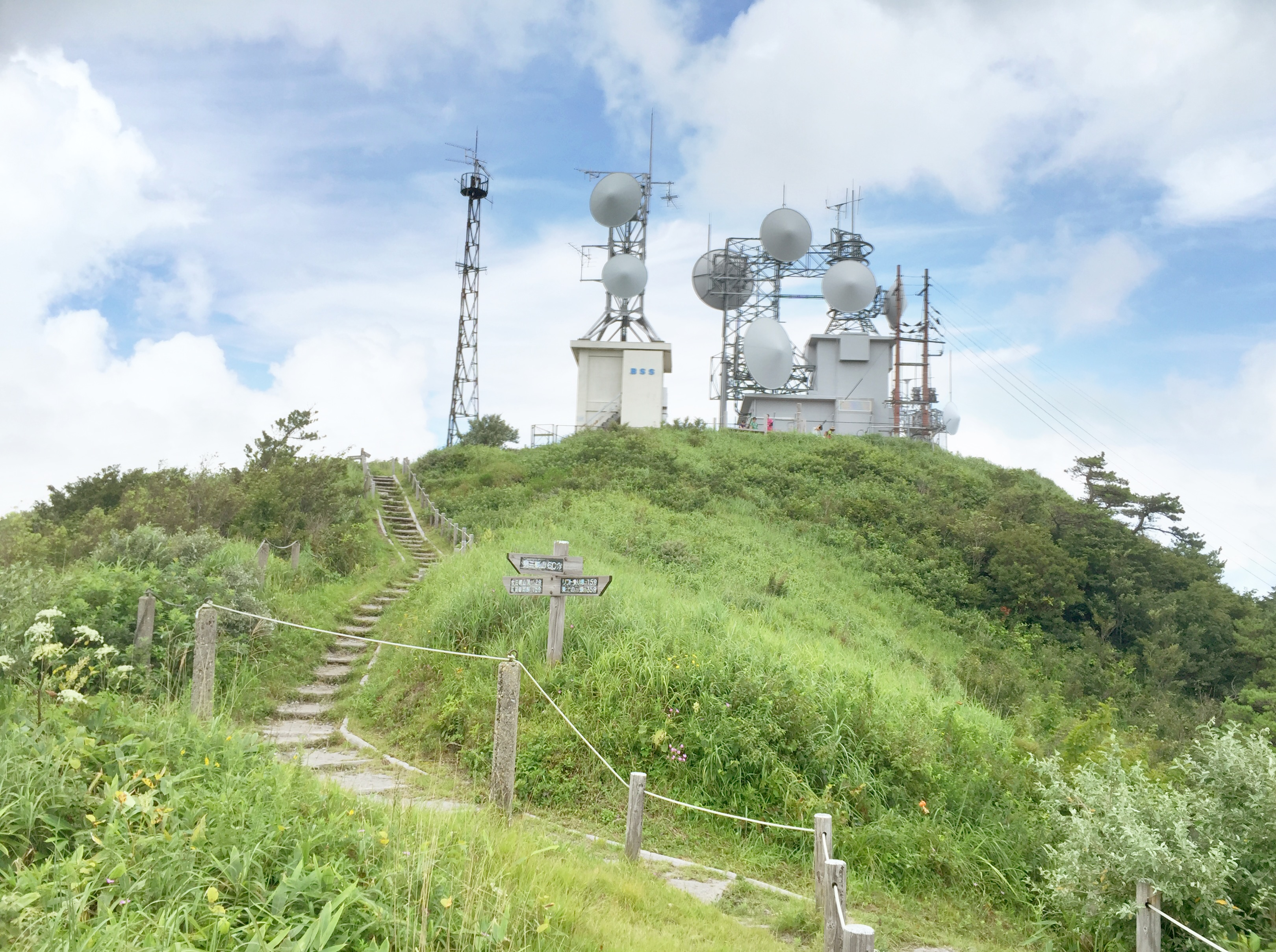 Top of Mount Onna-Sanbe in Shimane Prefecture, Japan